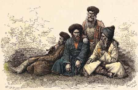 Jews of Caucasus. Original wood engraving drawn by Pranishnikoff, engraved by Hildibrand. Hand watercolored. 1881